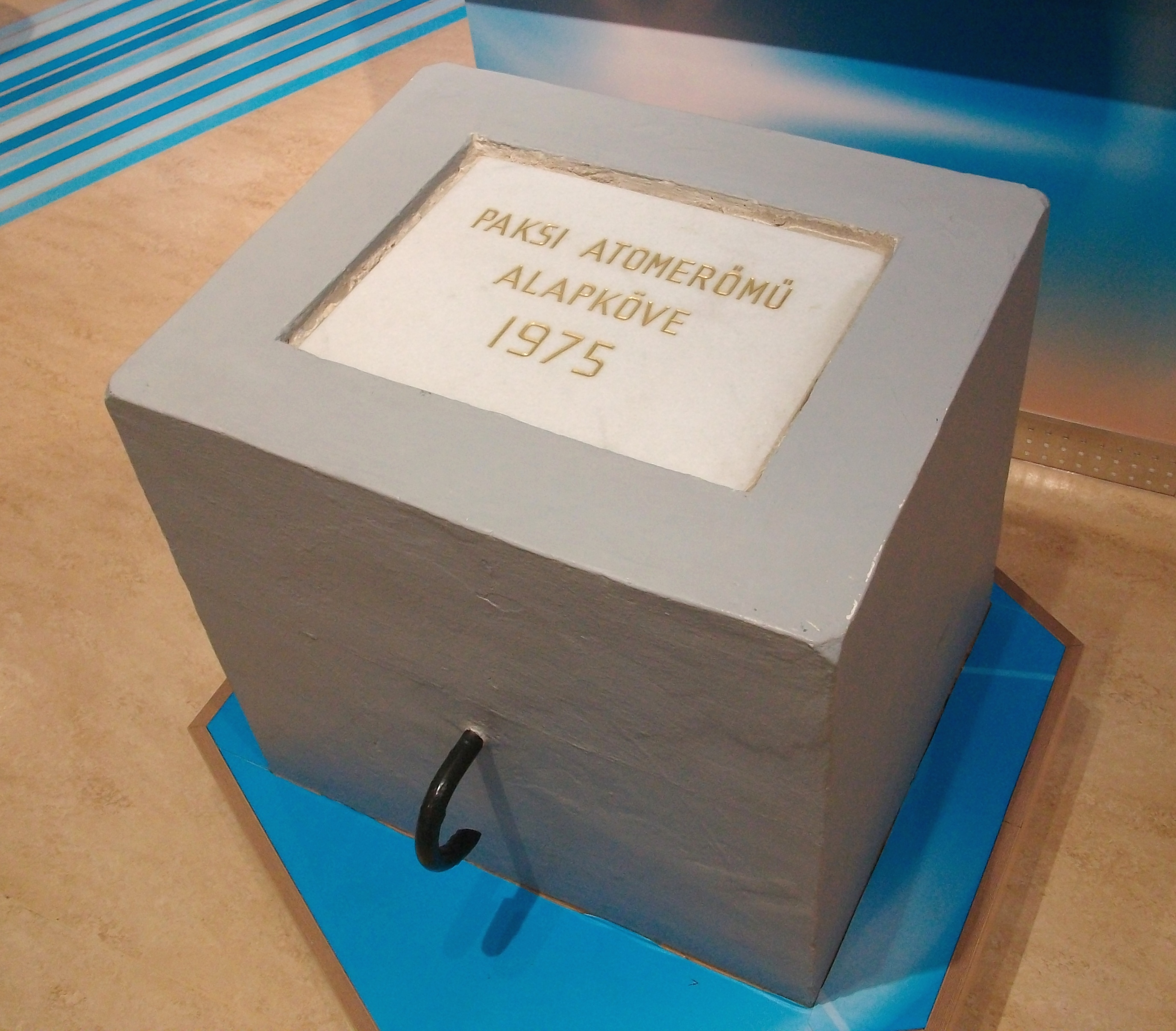 Foundation-stone of the Paks Nuclear Power Plant